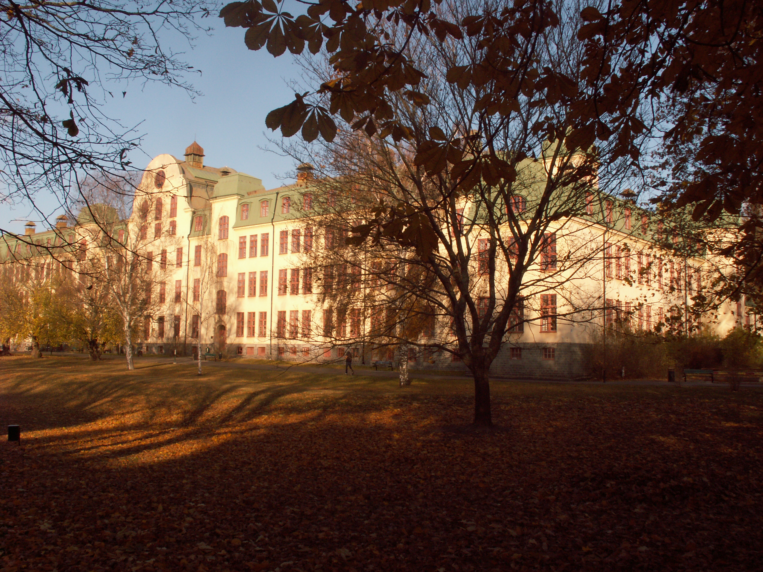 The Långbro park, Stockholm